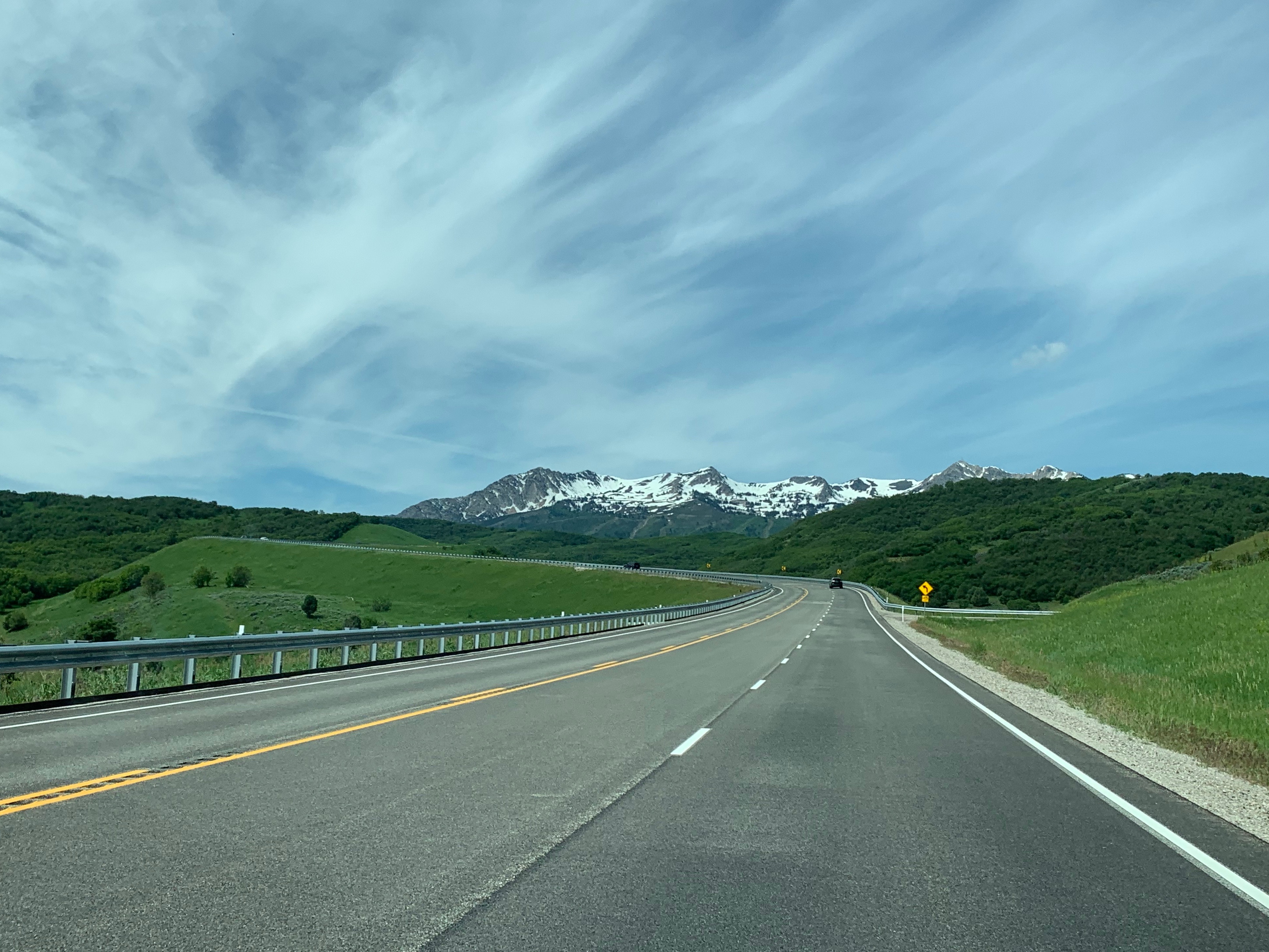 Southbound SR-167 with Mount Ogden in the background